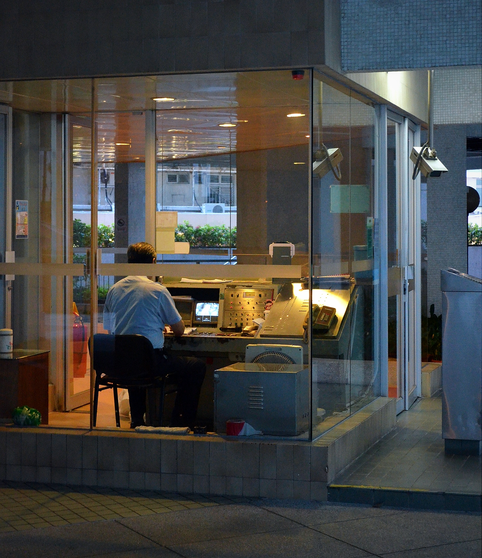 Security post at the entrance to a block of Whampoa Garden, Kowloon, Hong Kong.中文（香港）: 黃埔花園保安